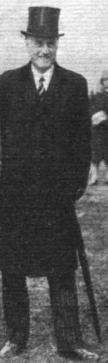 Sir Samuel Hoare, cropped from founding ceremony for the new College Hall building at the RAF Cadet College, Cranwell.